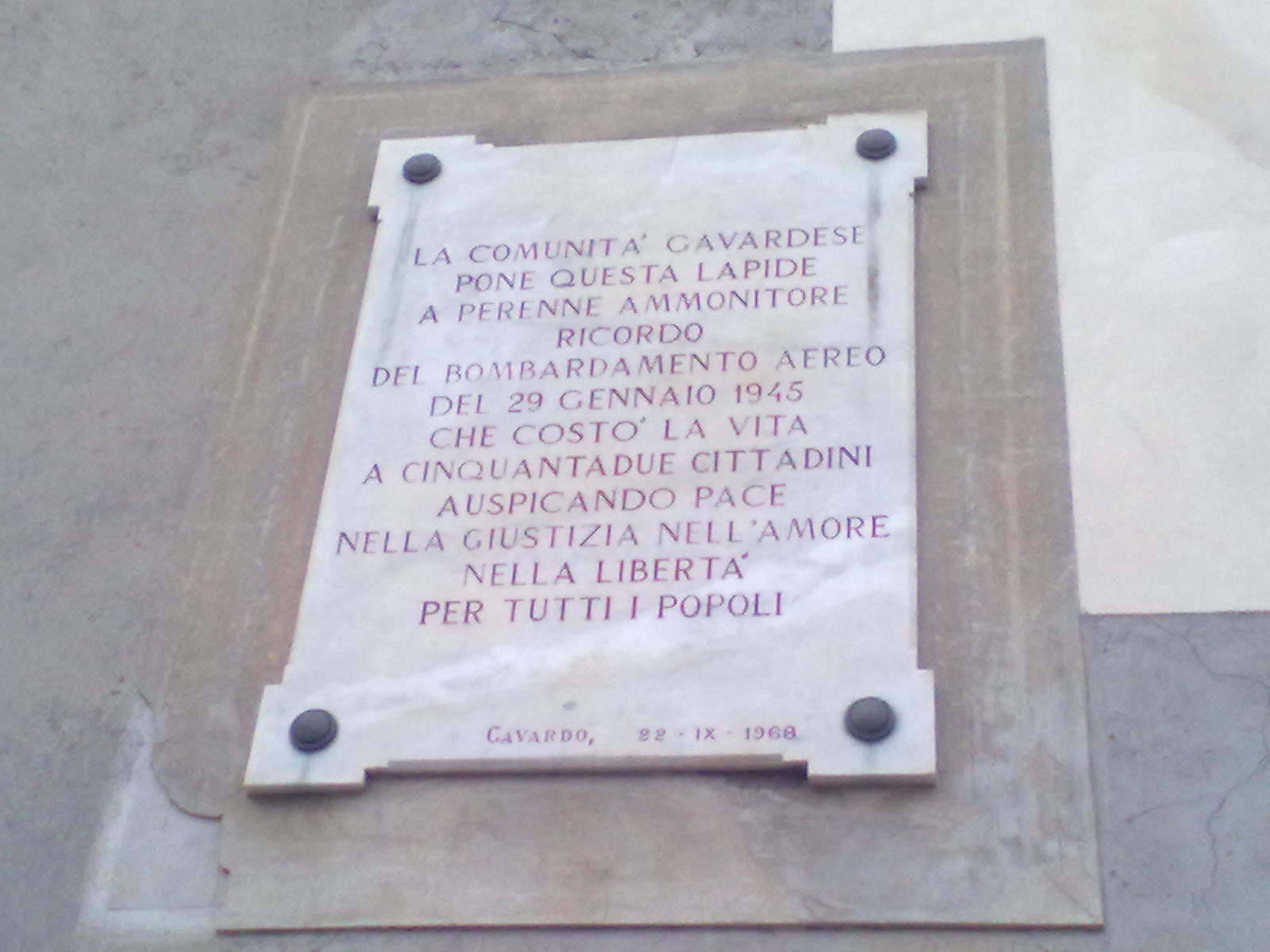 Gravestone in commemoration of the bombardment in Gavardo the 29 January 1945 placed on the lateral facade of church of Santi Filippo e Giacomo